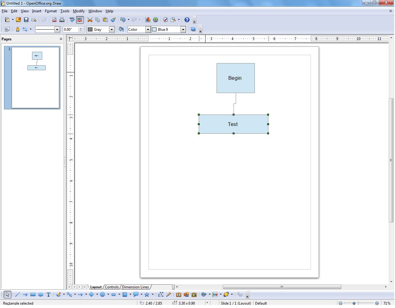 Aoo draw 3.4